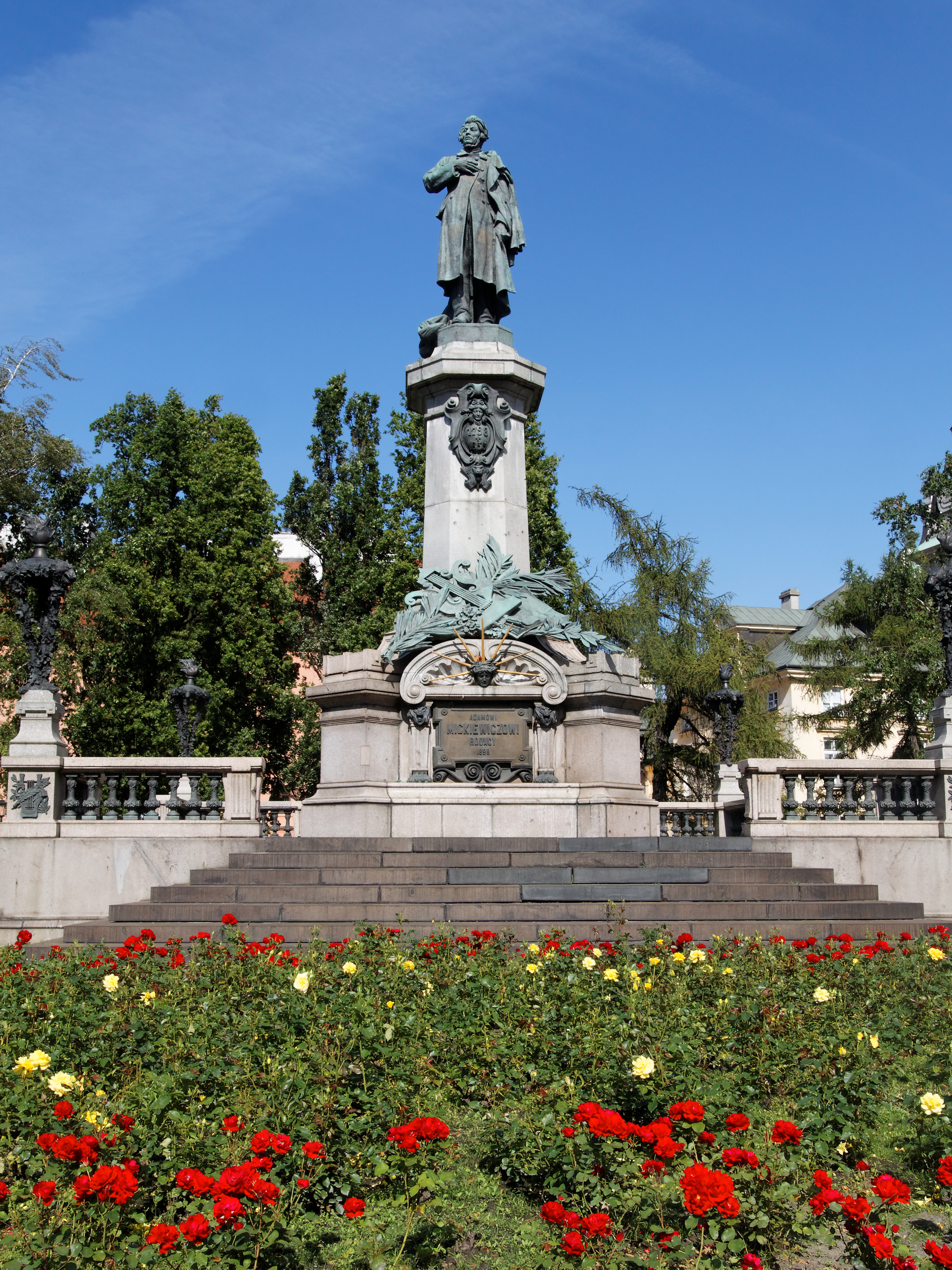 Adam Mickiewicz Monument in Warsaw, Poland.